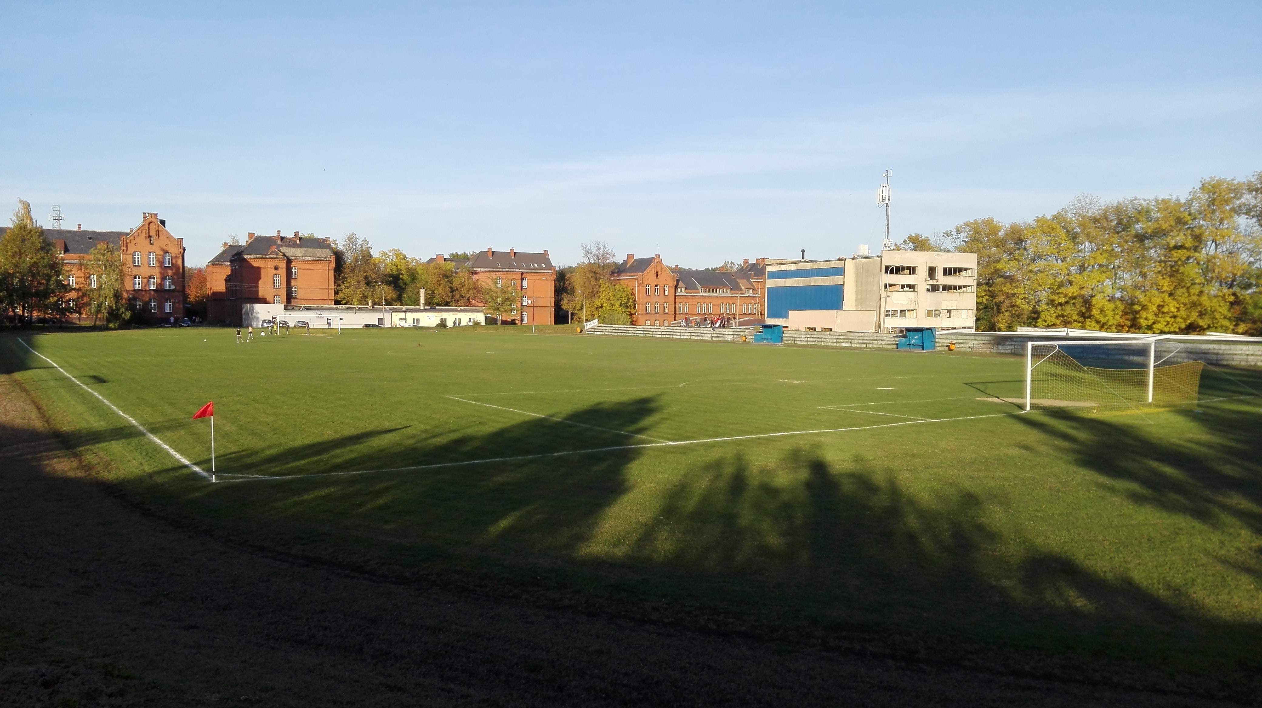 10 Włoska Street in Prudnik